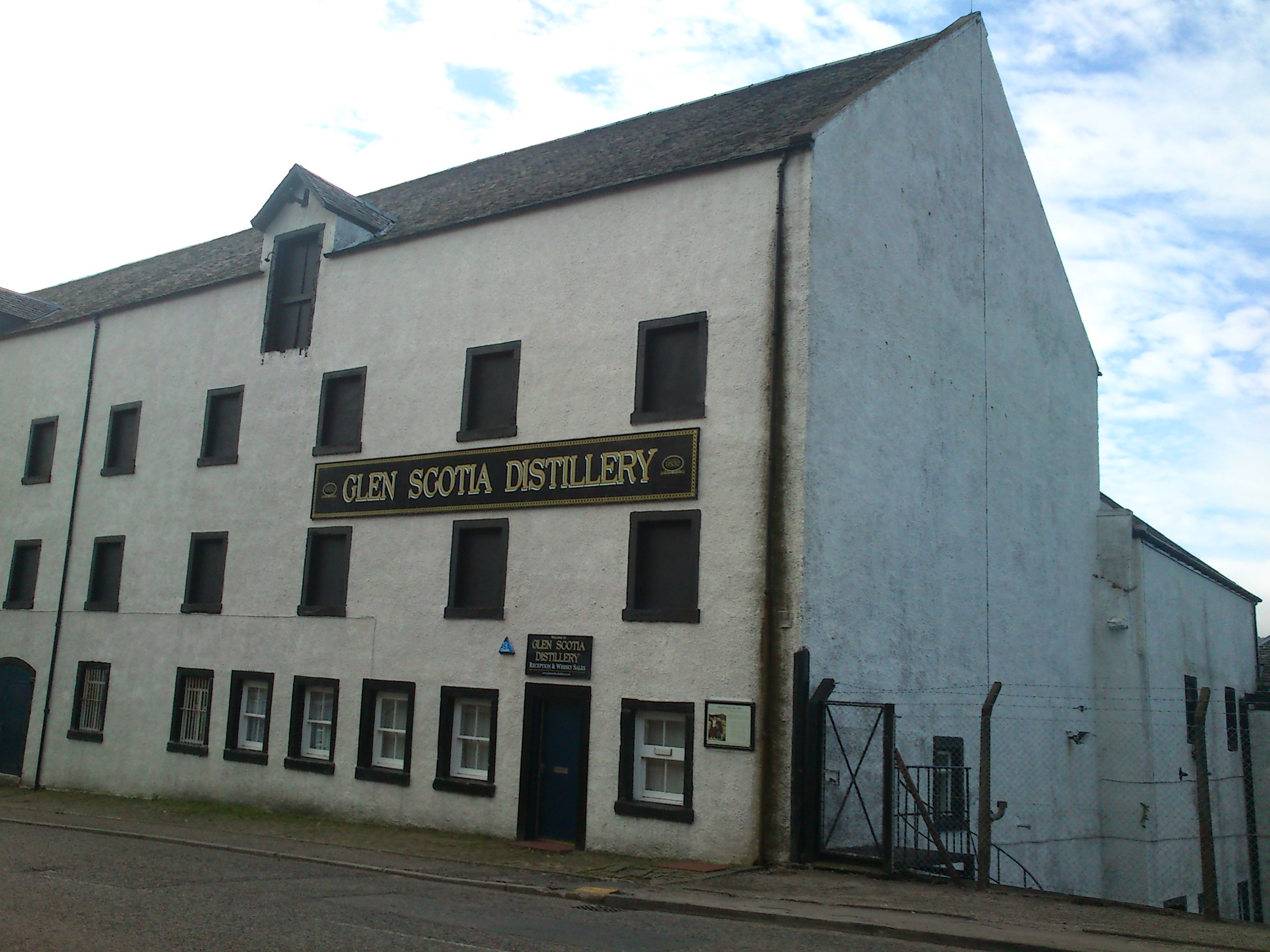 New Glen Scotia Distillery after full refurbishment.